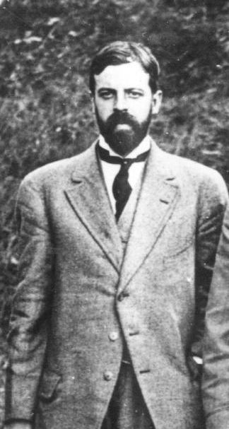 Ishi, last yahi indian Ishi, the last known member of the Yahi tribe, with anthropologist Alfred L. Kroeber.